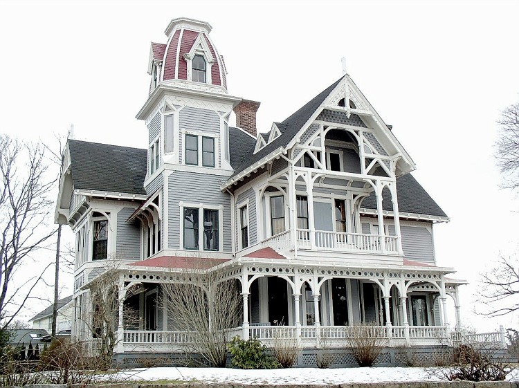 A Gothic Victorian house in the Stony Creek section of Branford, Connecticut.